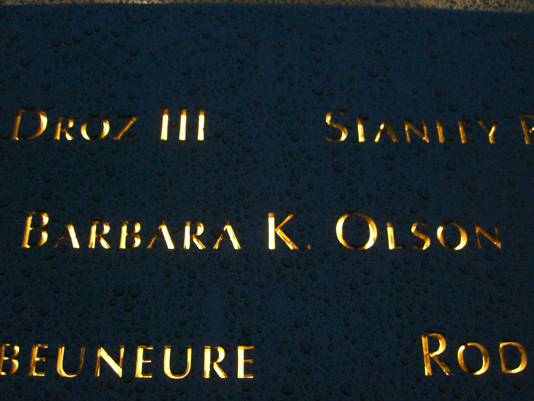 The name of Barbara Olson is seen with those of other 9/11 victims from American Airlines Flight 77 inscribed on bronze panel S-70 of the South Pool of the National September 11 Memorial in Manhattan, on December 6, 2011. This photo was created by Luigi Novi. If you have any questions, you can contact me by sending me an email or User talk:Nightscream